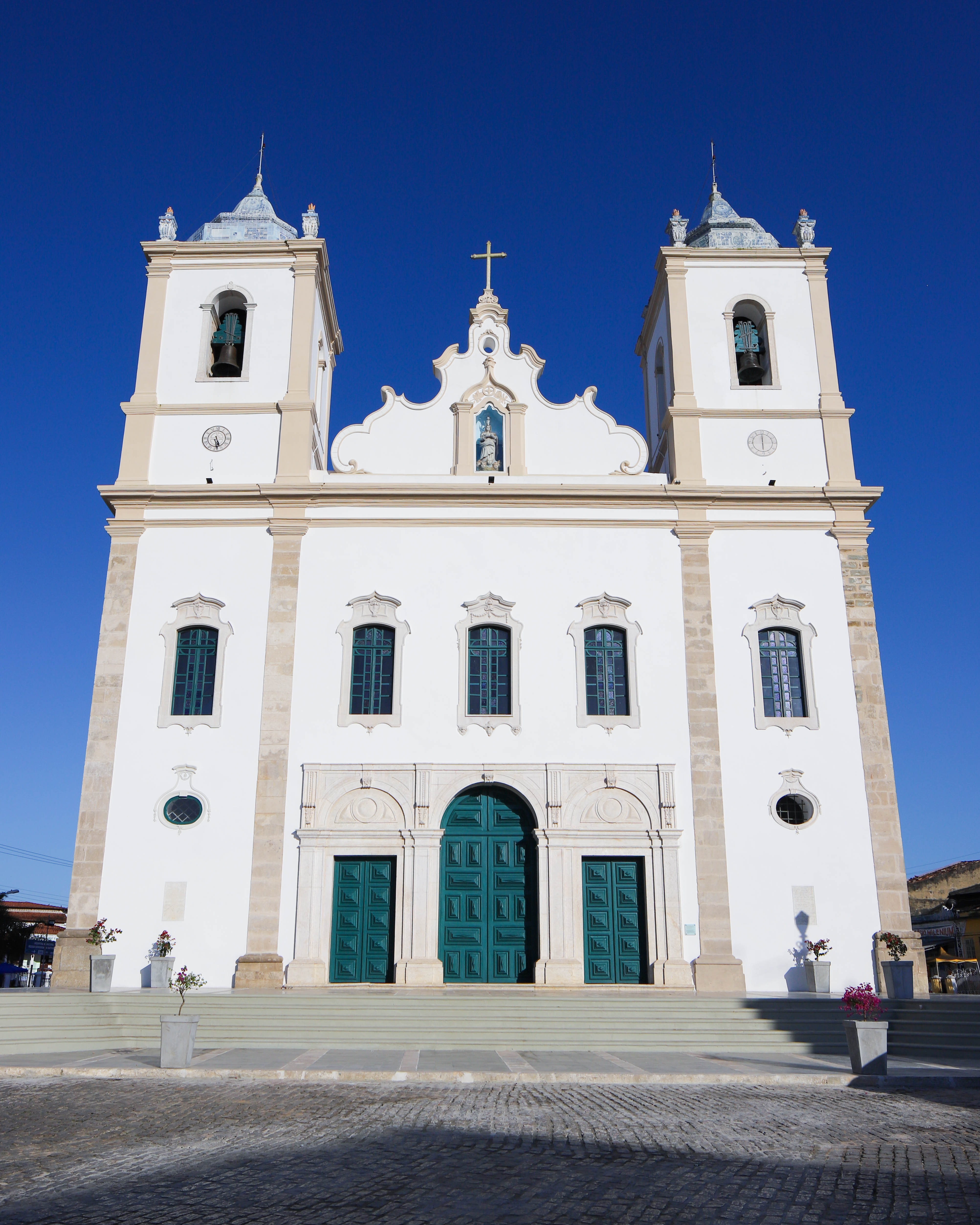 The Parish Church of Our Lady of Purification (Portuguese: Igreja Matriz de Nossa Senhora da Purificação) is an 18th-century Roman Catholic church located in Santo Amaro, Bahia, Brazil. The church is dedicated to Blessed Virgin Mary and belongs to the Roman Catholic Archdiocese of São Salvador da Bahia. Its construction is dated to 1706. The church was listed as a historic structure by the National Historic and Artistic Heritage Institute in 1958.